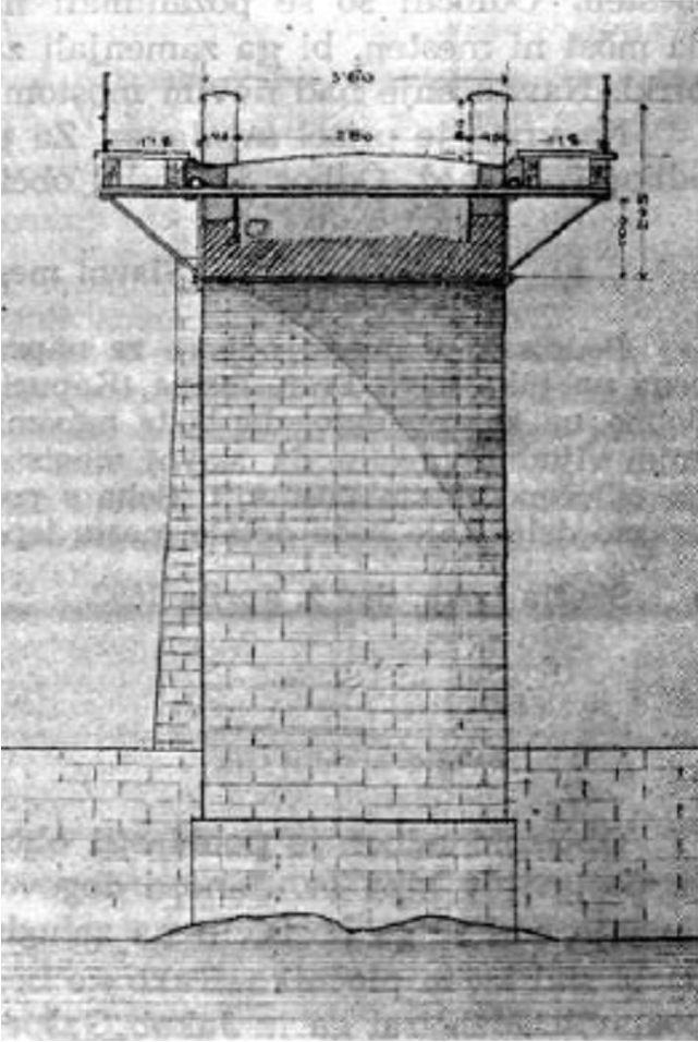 Cross-section plan for widening the Capuchin Bridge in Škofja Loka. The original stone fence is also drawn.